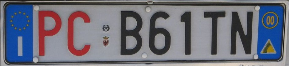 License plate for vehicles of Province of Trento Civil Protection authority (Italy). Released 2000